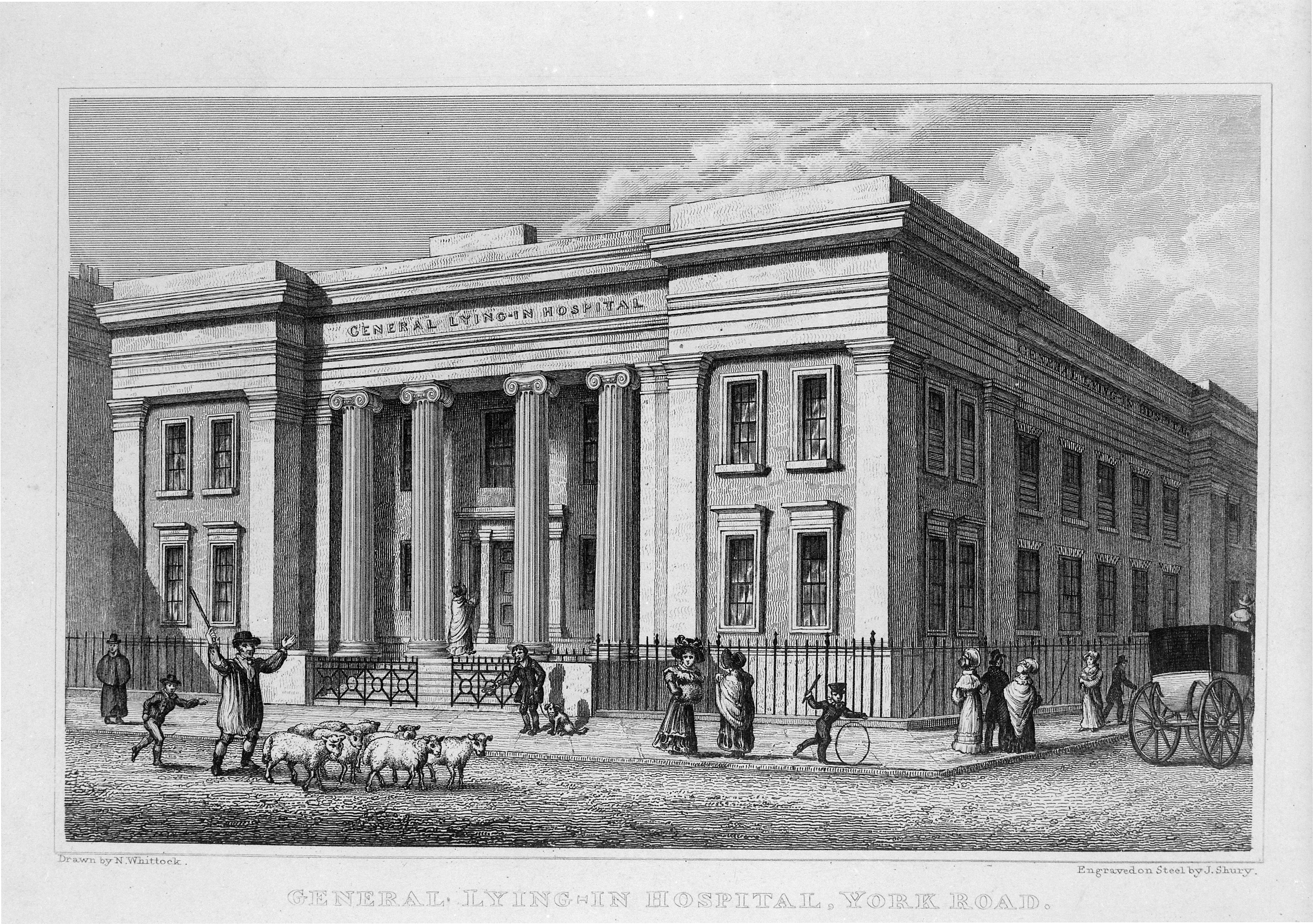 The General Lying-in Hospital, York Road, Waterloo. Engraving by J. Shury, 1830, after N. Whittock. Wellcome Images Keywords: Nathaniel Whittock; J. Shury; Henry Harrison